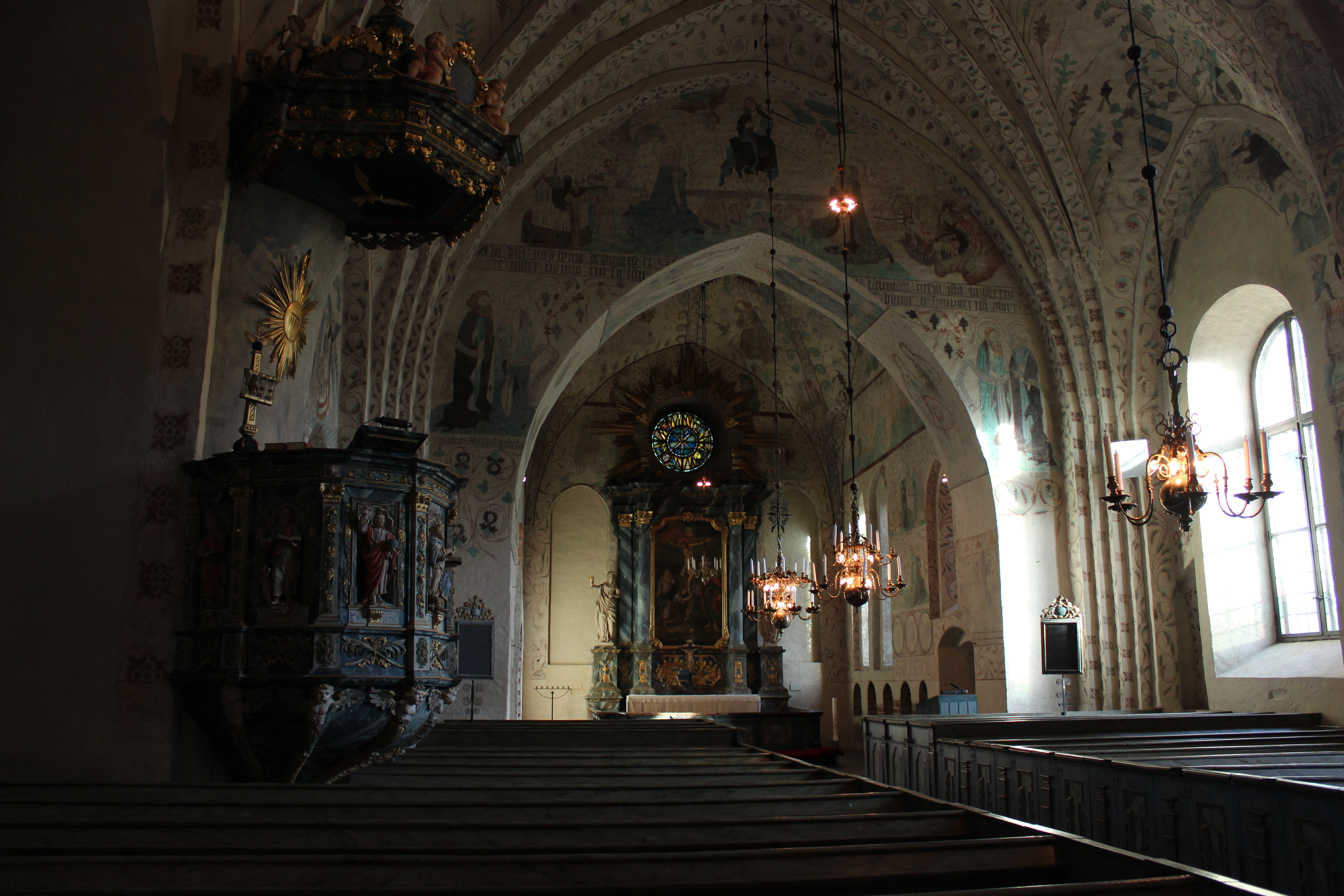 The church Vendels kyrka, Tierp Municipality, Uppland, Sweden